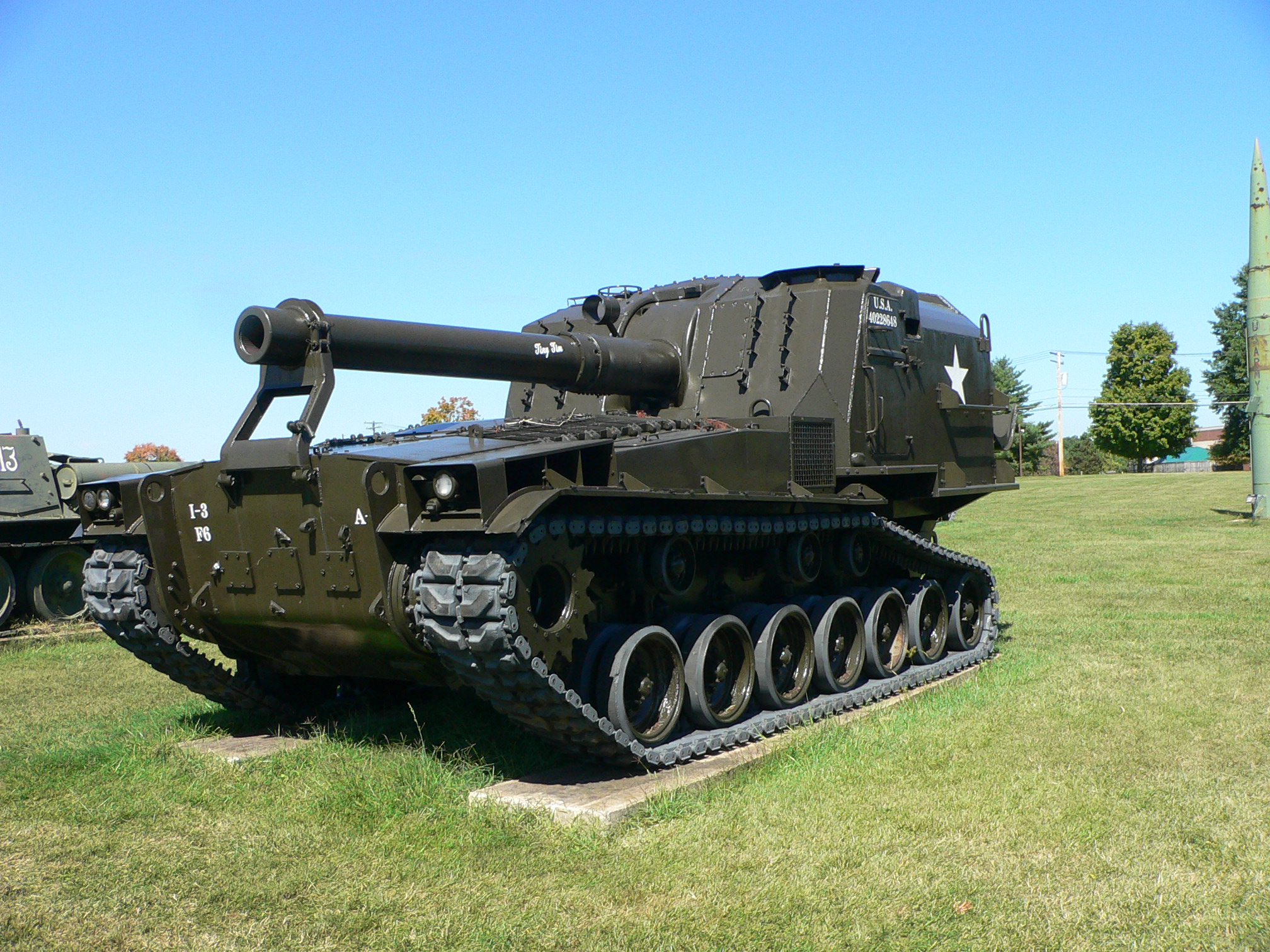 Picture taken by myself, Mark Pellegrini, at the United States Army Ordnance Museum (Aberdeen Proving Ground, MD)